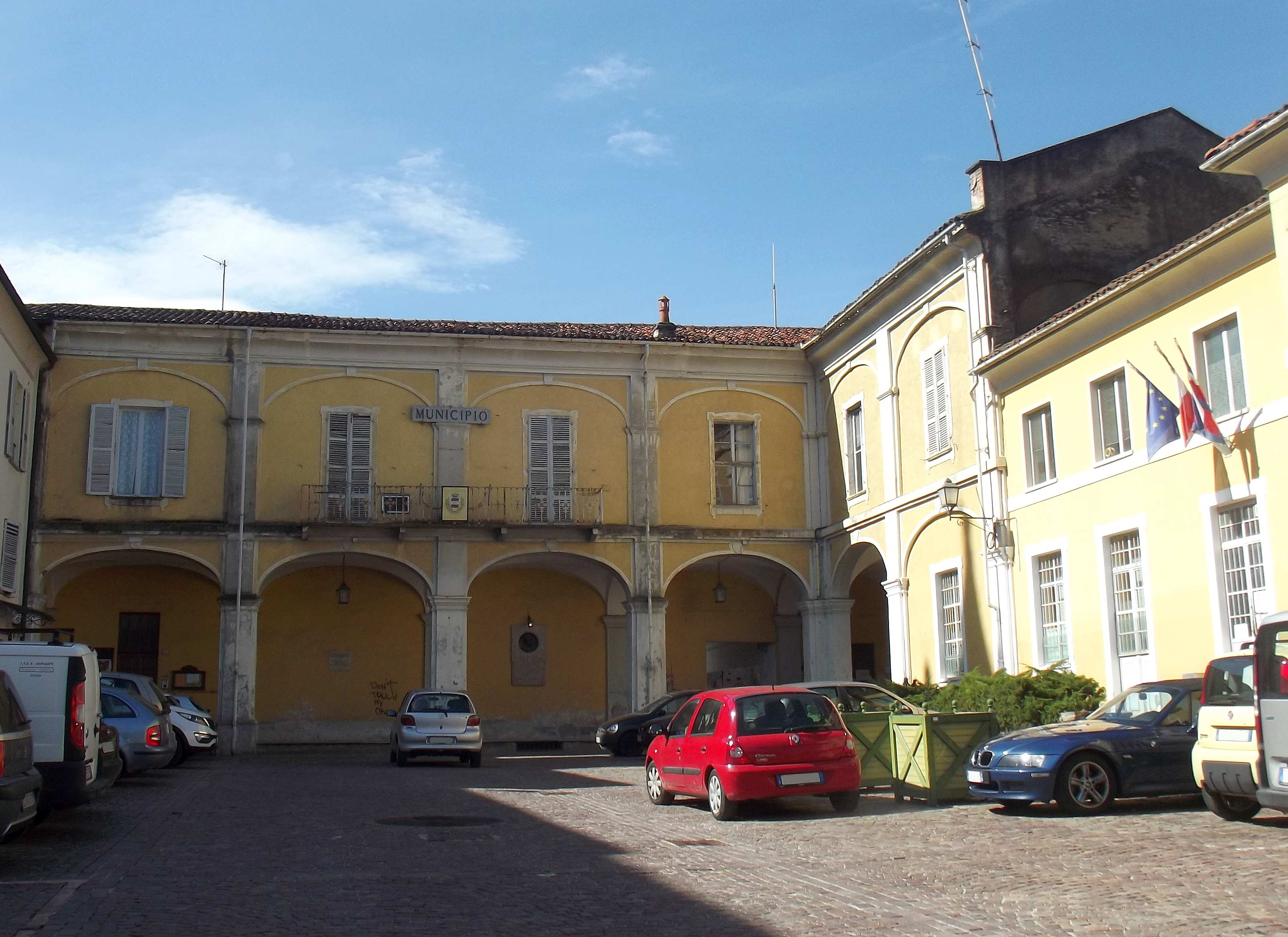 Piossasco (TO, Italy): town hall